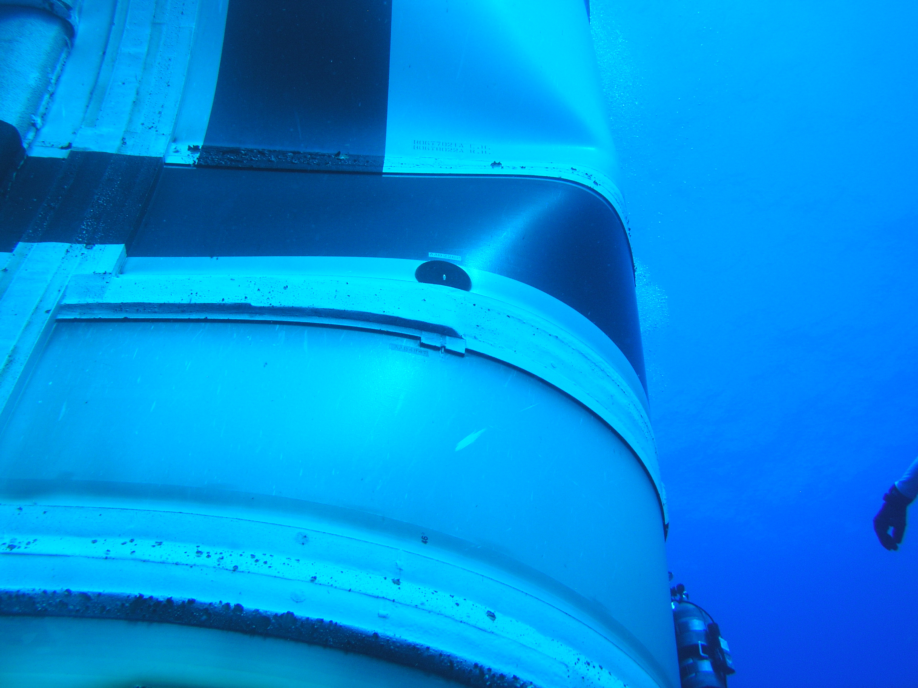 CAPE CANAVERAL, Fla. – A dent in the first stage of the Ares I-X rocket was discovered by divers preparing to recover the spent stage following the launch of the flight test mission.